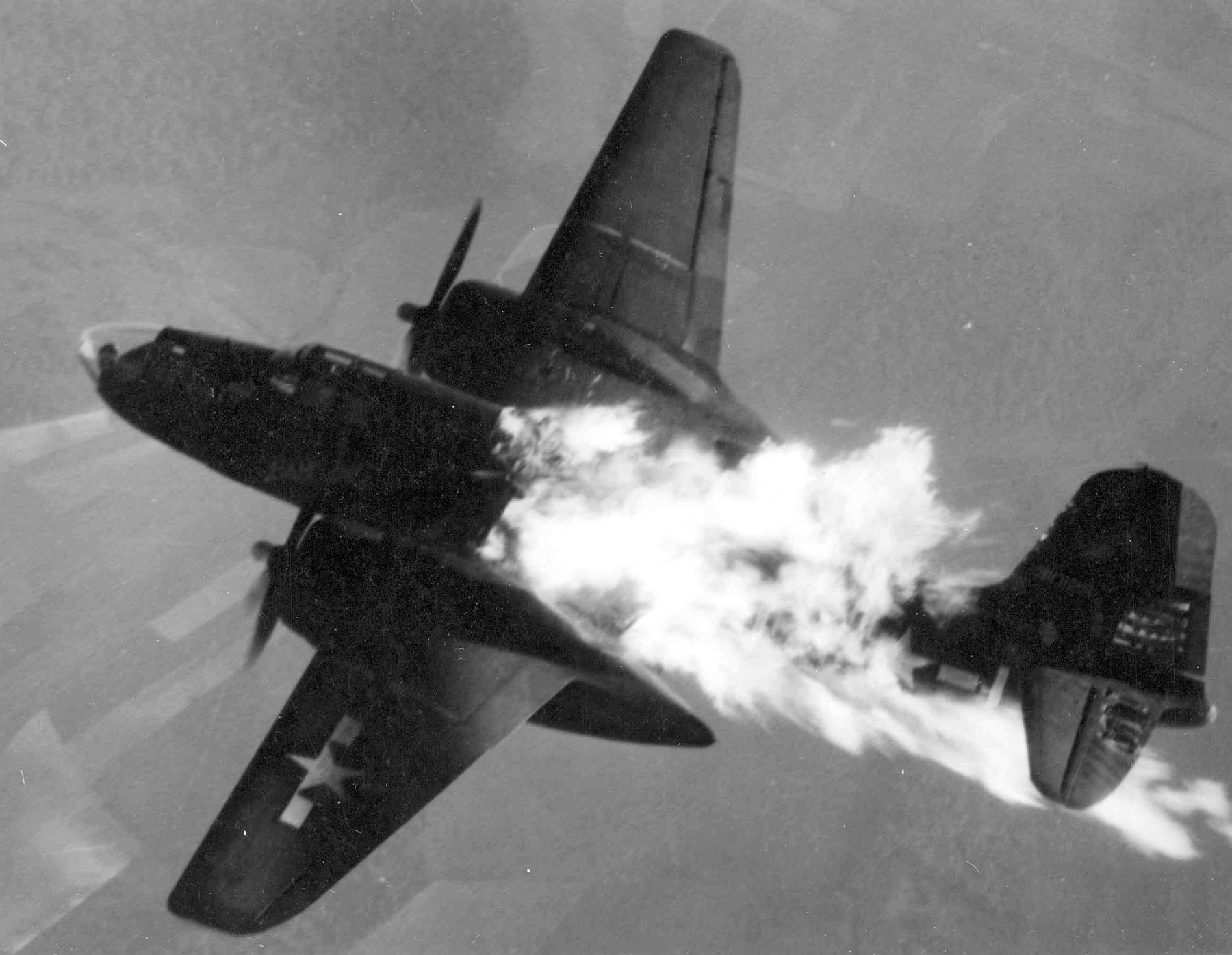 Douglas A-20J-10-DO (S/N 43-10129) of the 409th or 416th Bomb Group after being hit by flak over Germany.